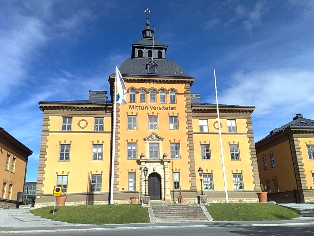 Mid Sweden University in Östersund. The house was formerly the chancellery of Norrland Artillery Regiment.